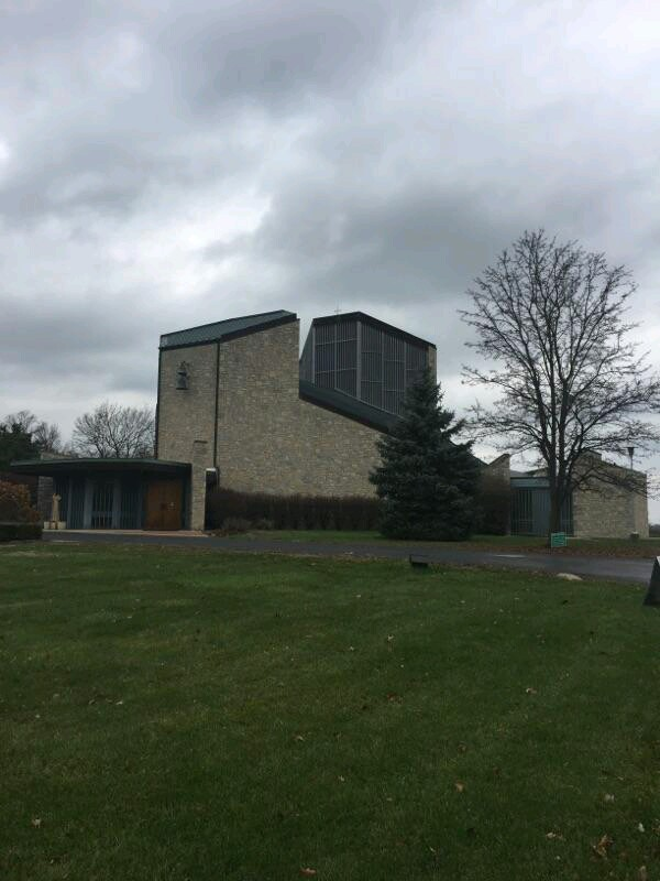 Church in San Margherita, Ohio